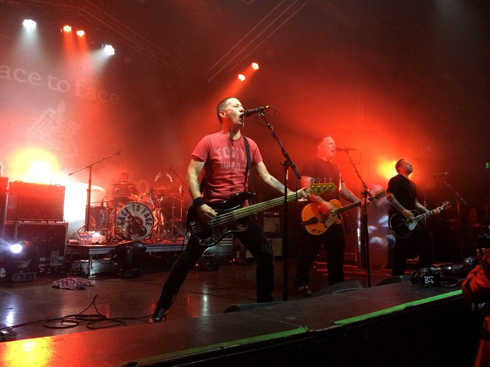 Photo taken at the Observatory in Santa Ana, CA in Dec 2014. Picture is of face to face bassist Scott Shiflett